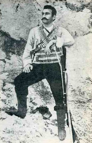 Kevork Chavuch (Chavuch means sergeant in Turkish language)